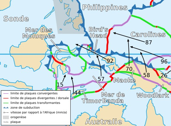 Map of the Bird's head Plate